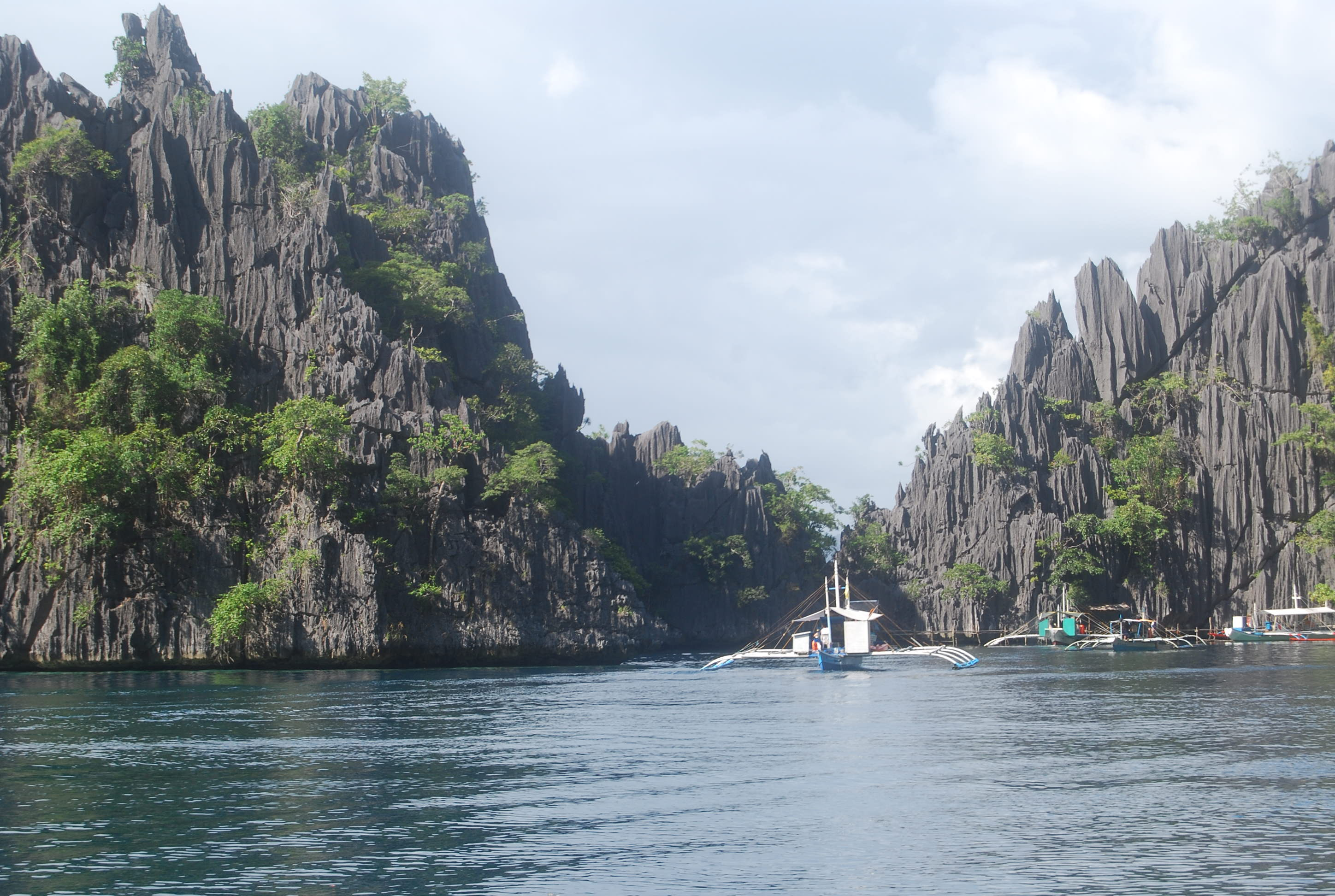 Ship on Coron island. Taken on a med mission trip to Coron, Palawan.